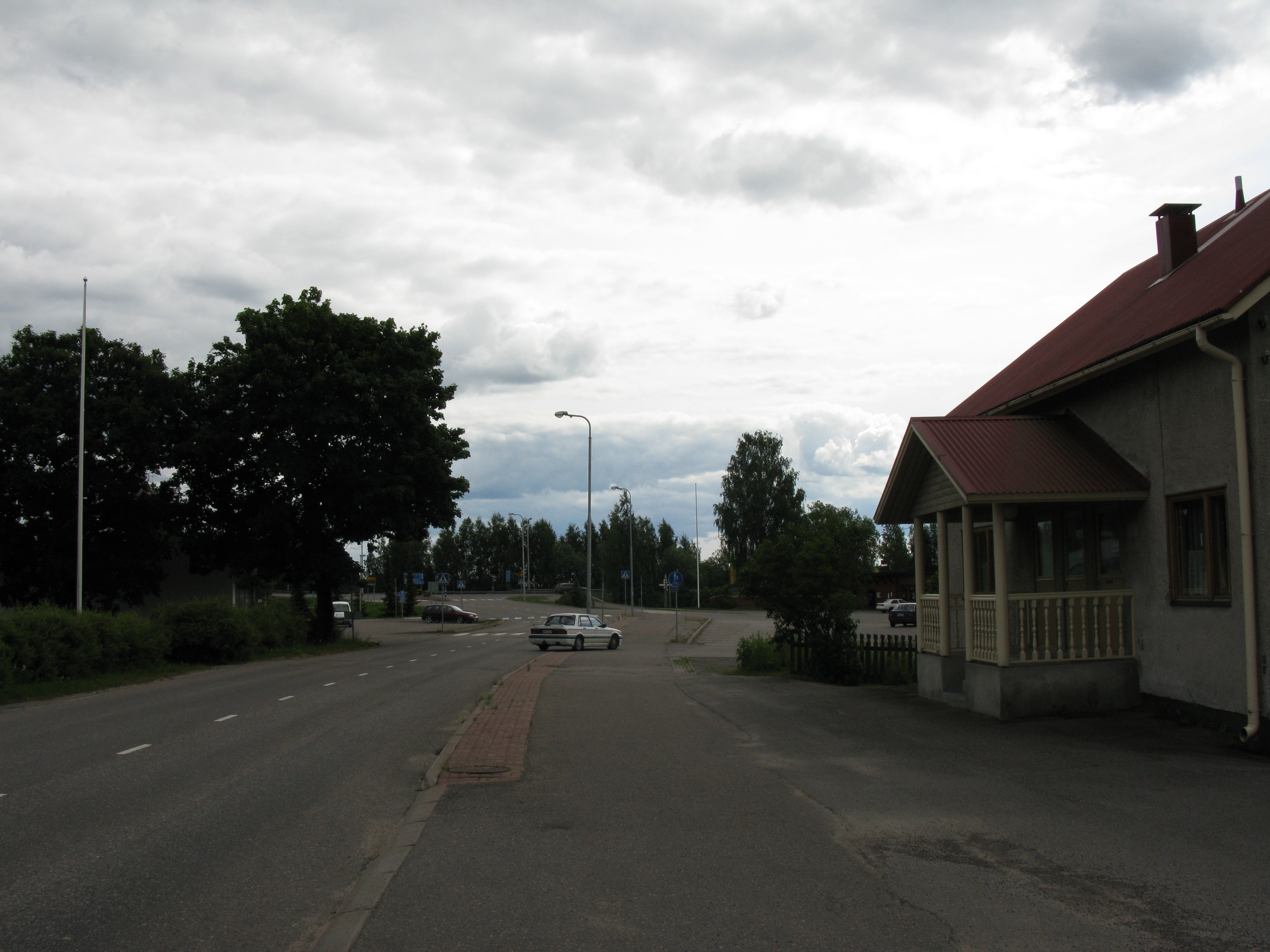 Melkoniementie road (connecting road 4052) in the village of Särkisalmi in Parikkala, Finland